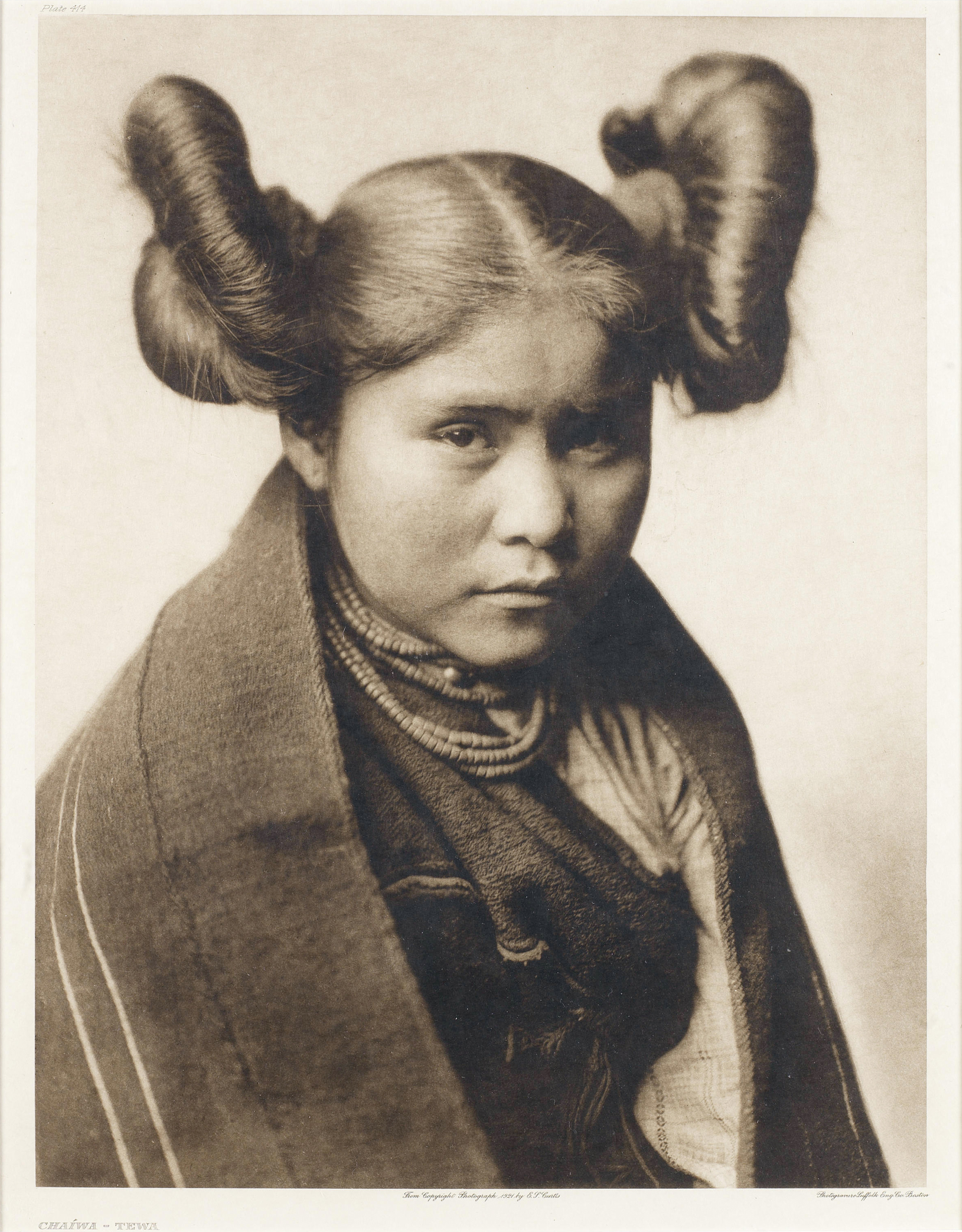 Chaiwa — Tewa peoples. Edward S. Curtis, 1922 Northwestern University Library, Edward S. Curtis's 'The North American Indian': the Photographic Images, 2001.